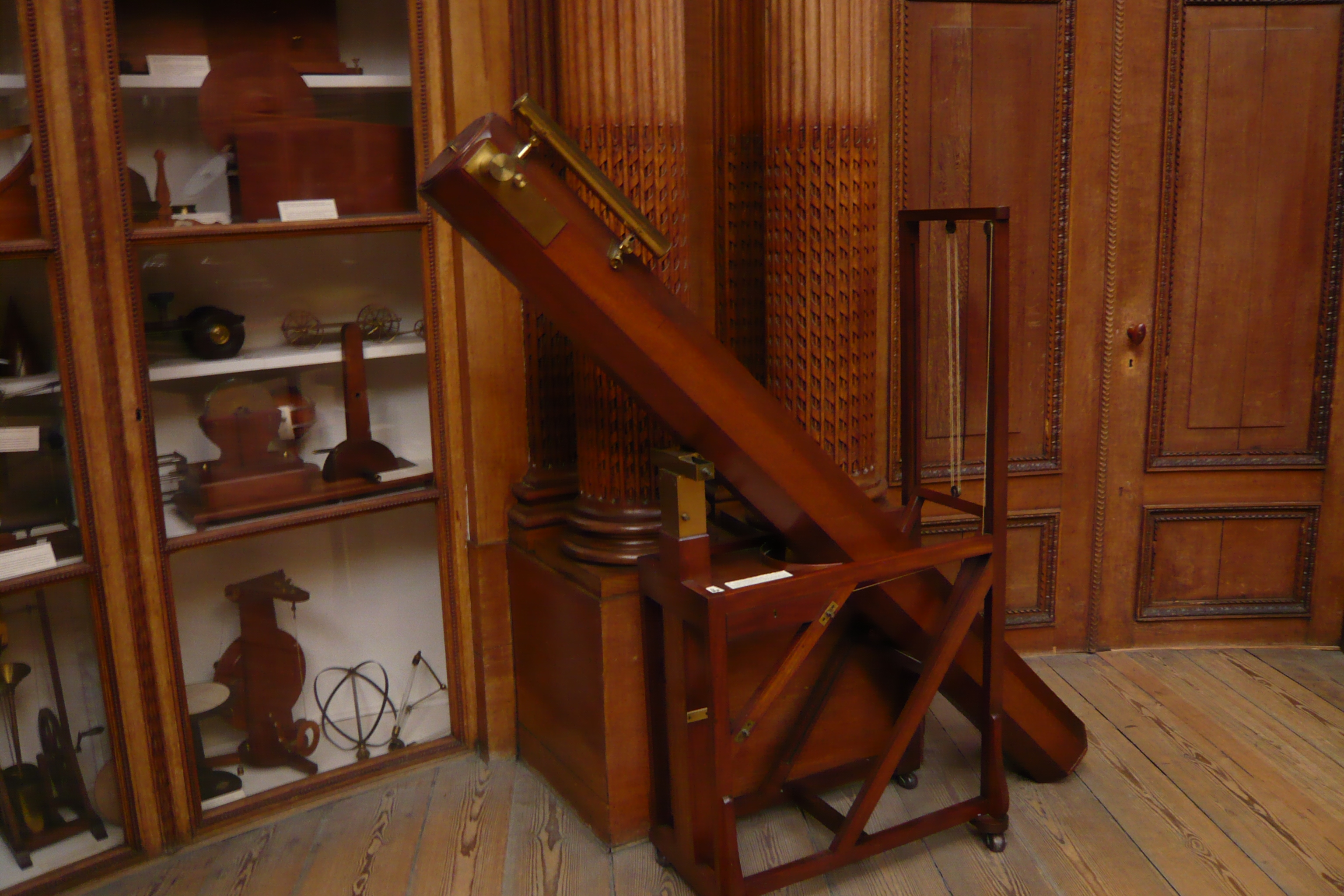 Photo of instrument in Teyler's Oval Room, Teylers Museum, Spaarne, Haarlem Reflecting Telescope after Isaac Newton, built by William Herschel from Slough, 1790